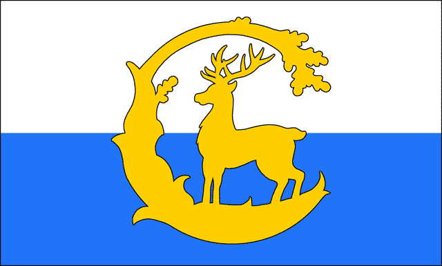 Berkshire Flag released into public domain.